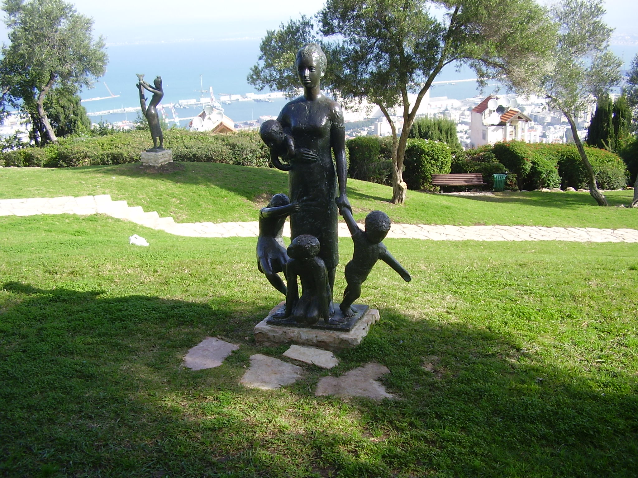 mother and her cildren by ursula malbin in haifa